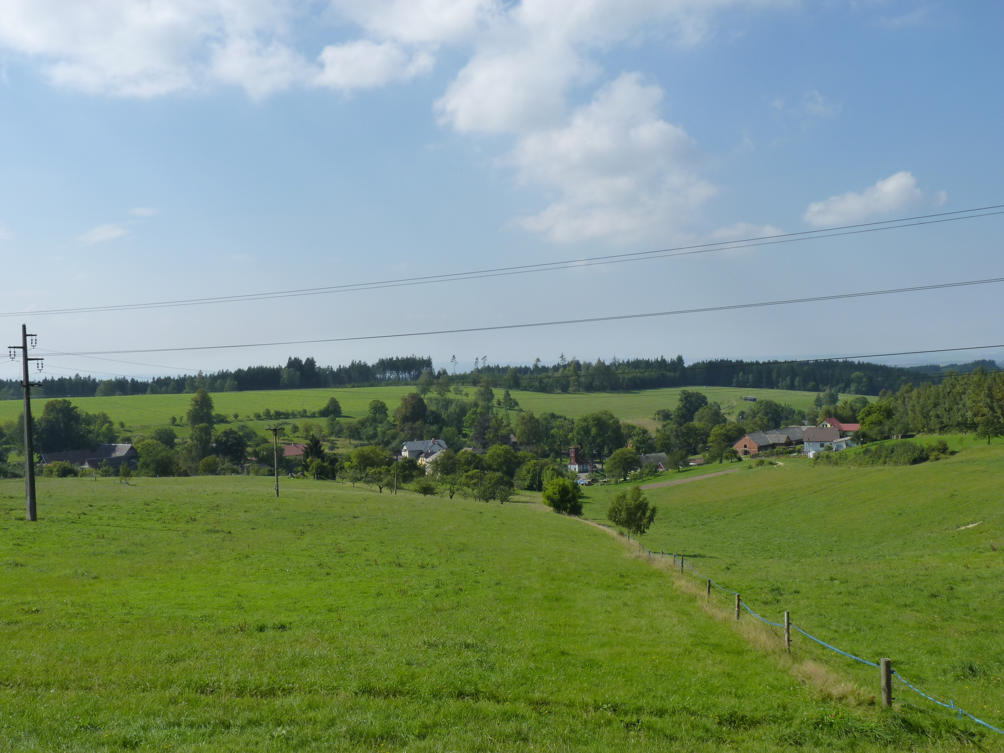 Kozlov (Česká Třebová), Ústí nad Orlicí District, Pardubice Region, Czech Republic